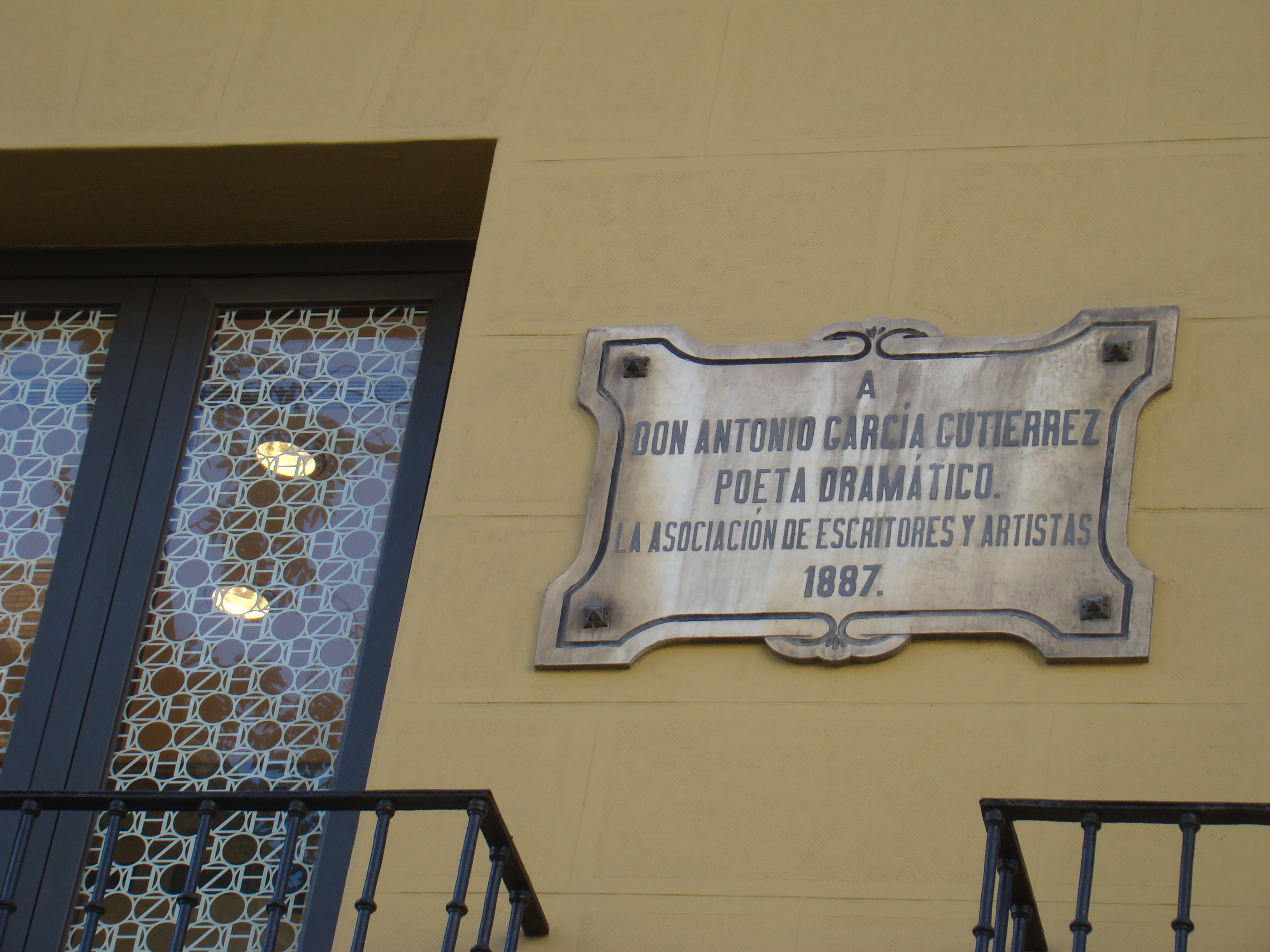 Street of Fuencarral, Madrid, Spain. In this house the writer Antonio García Gutiérrez lived and died.